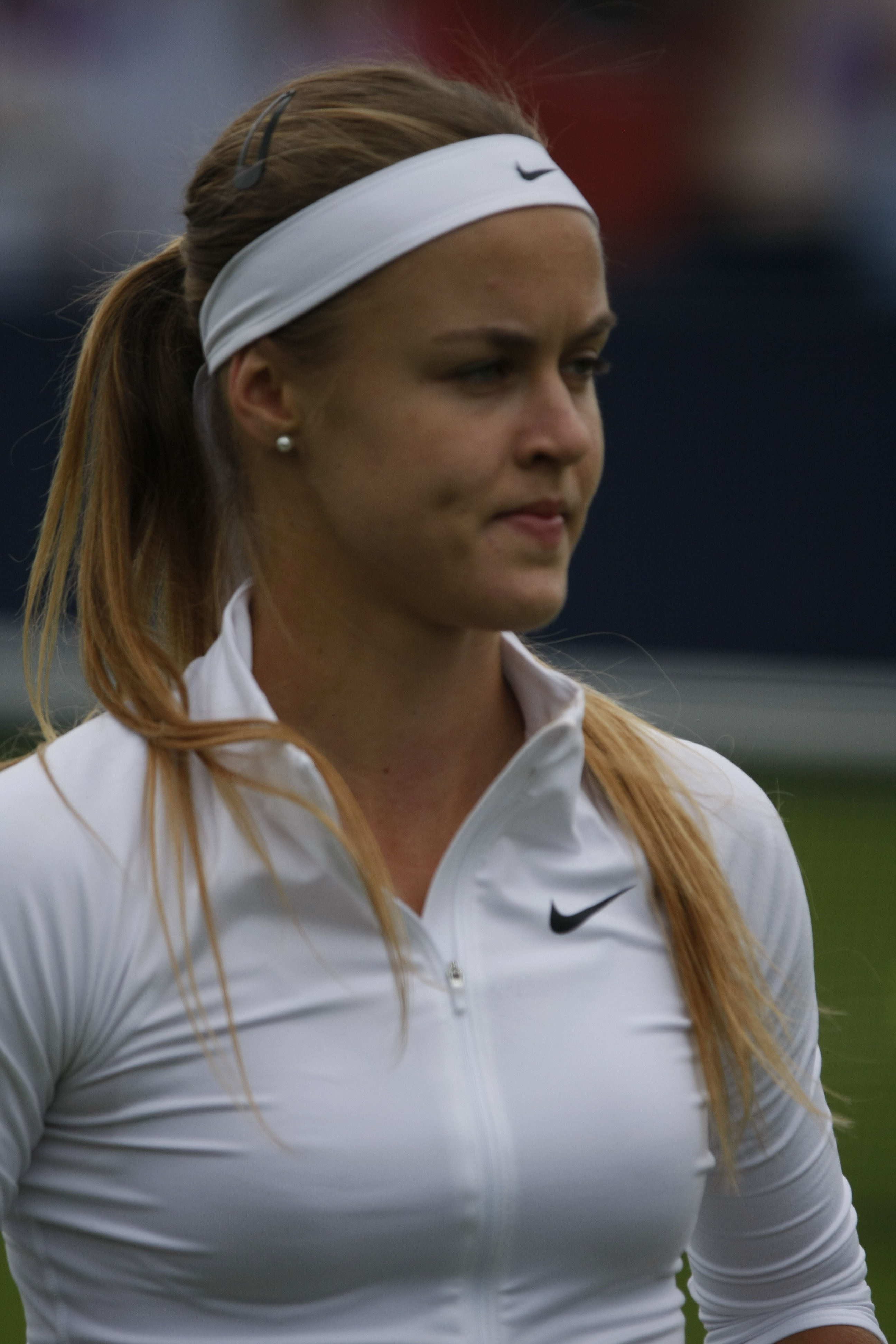 Aegon International Tennis, Devonshire Park, Eastbourne June 2015